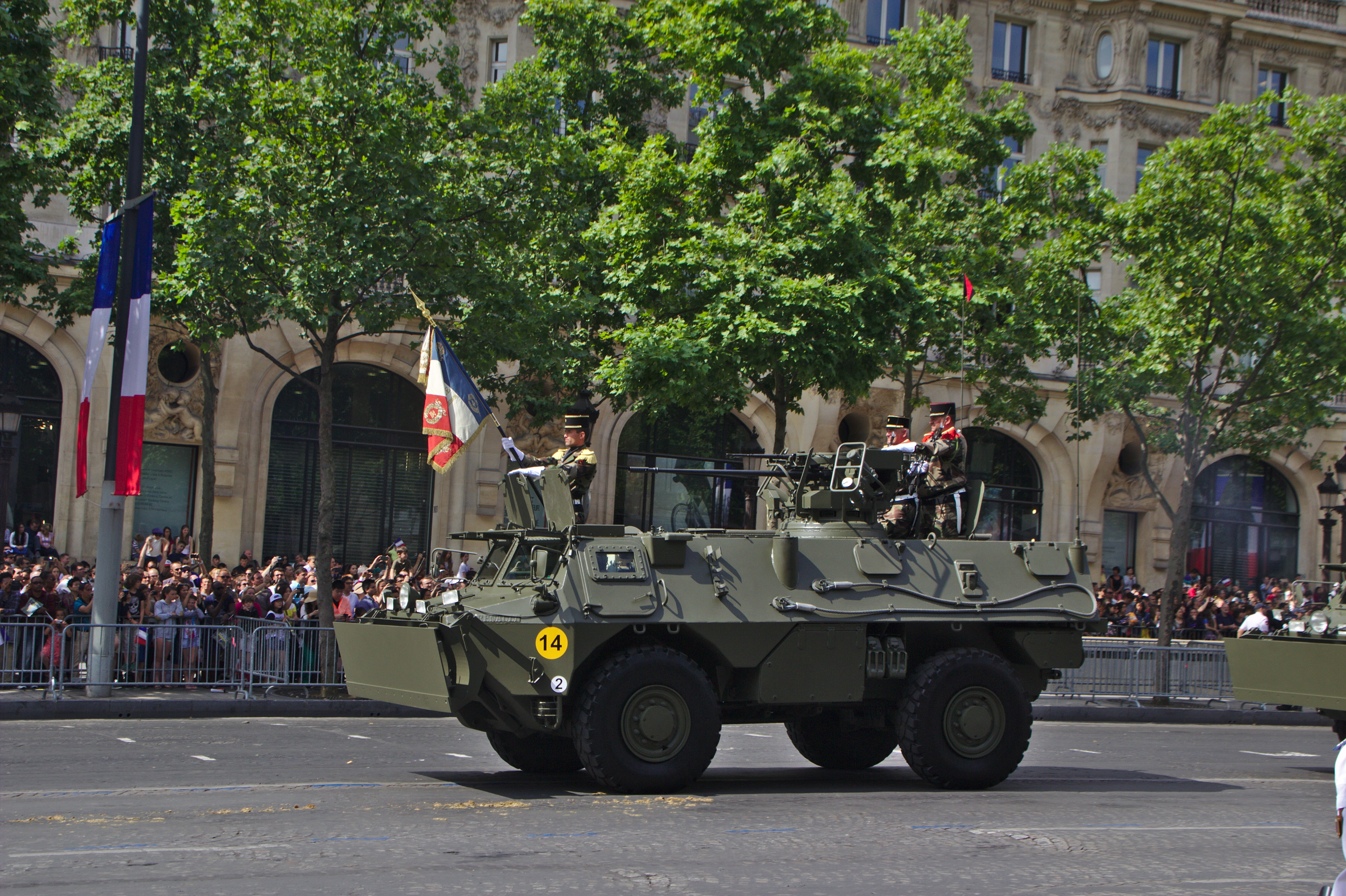 One VAB T20/13. Bastille Day 2015 military parade in Paris.